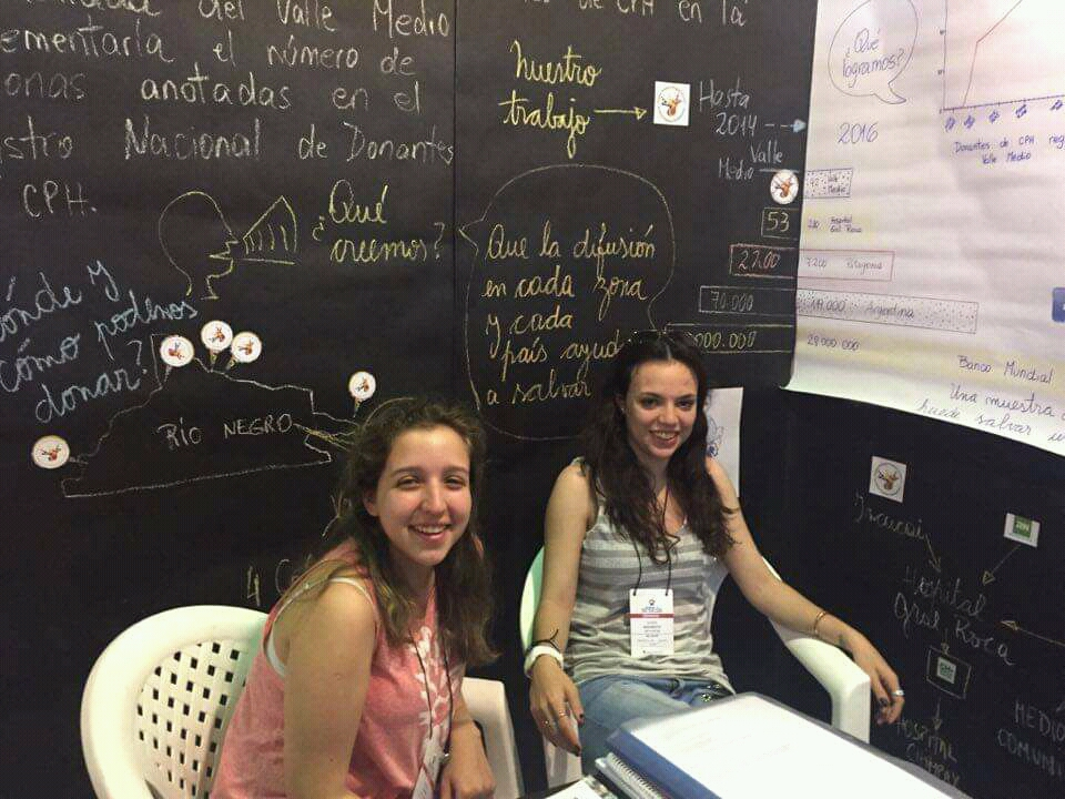 Estudiantes exponiendo su proyecto en la Feria Nacional, Córdoba.2016